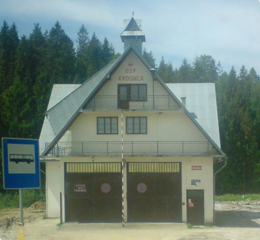 Firebrigade in Krośnica